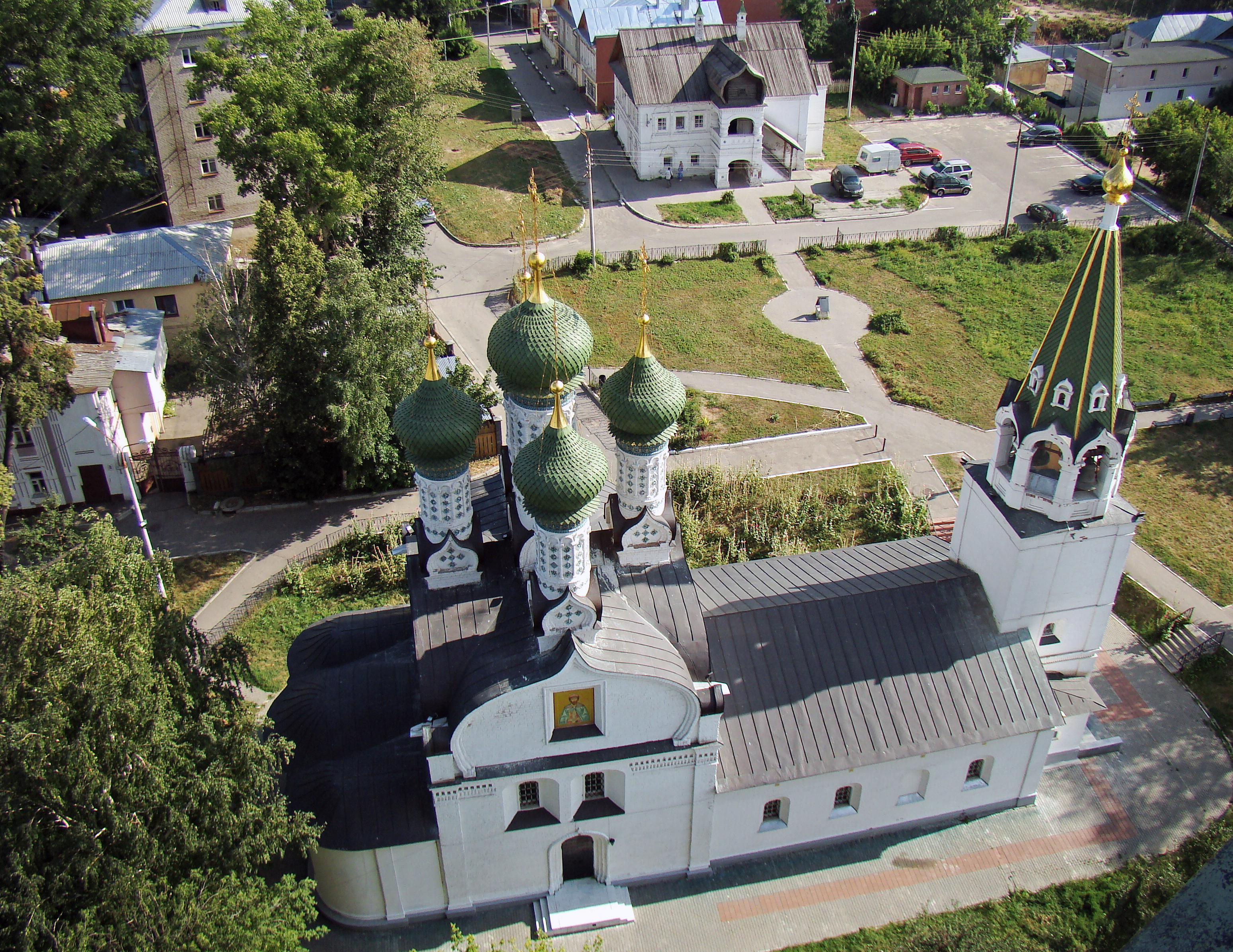 Assumption Church on Ilynskaya Hill